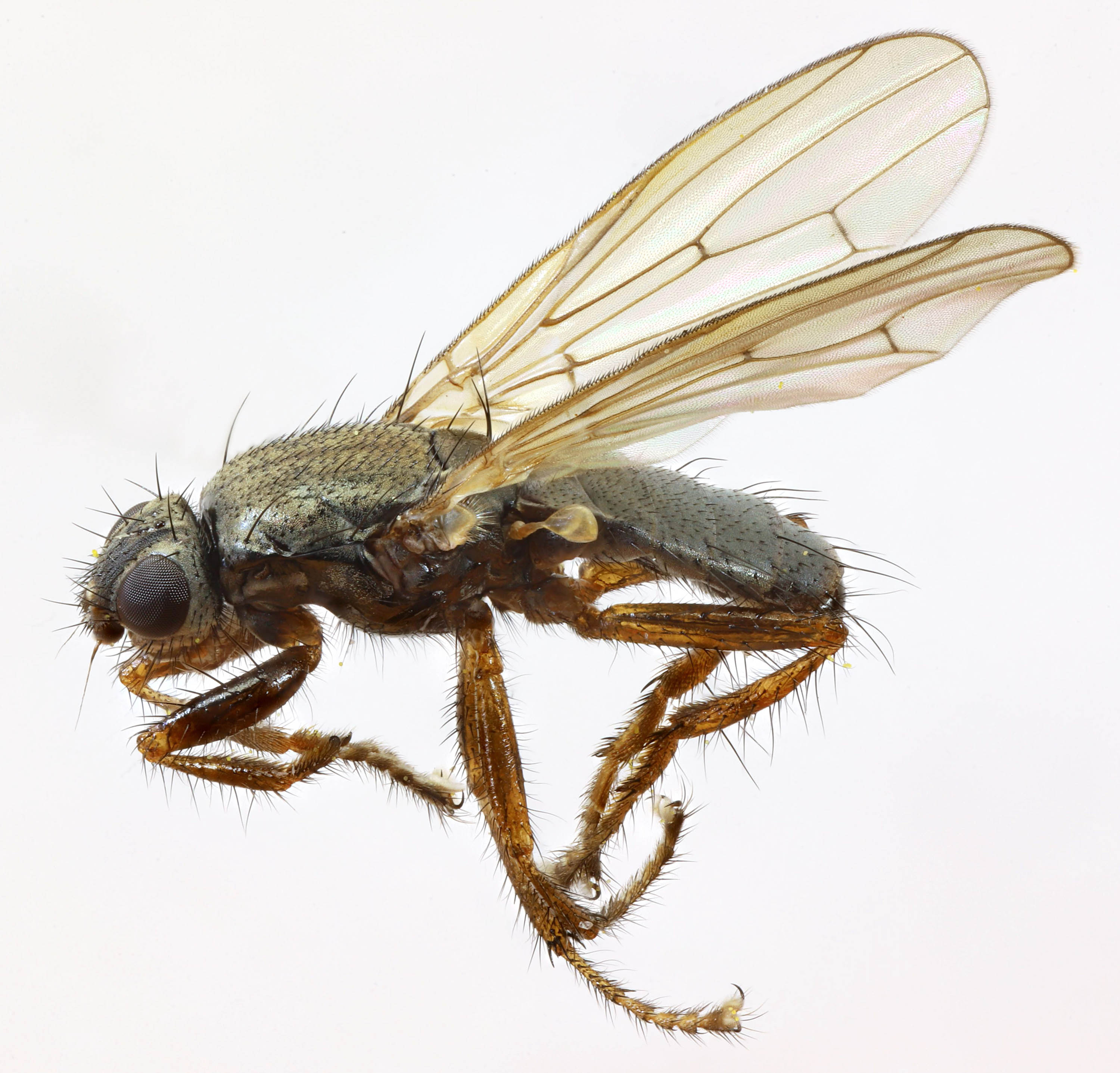 Coelopa frigida, Tonfanau, North Wales, August 2018